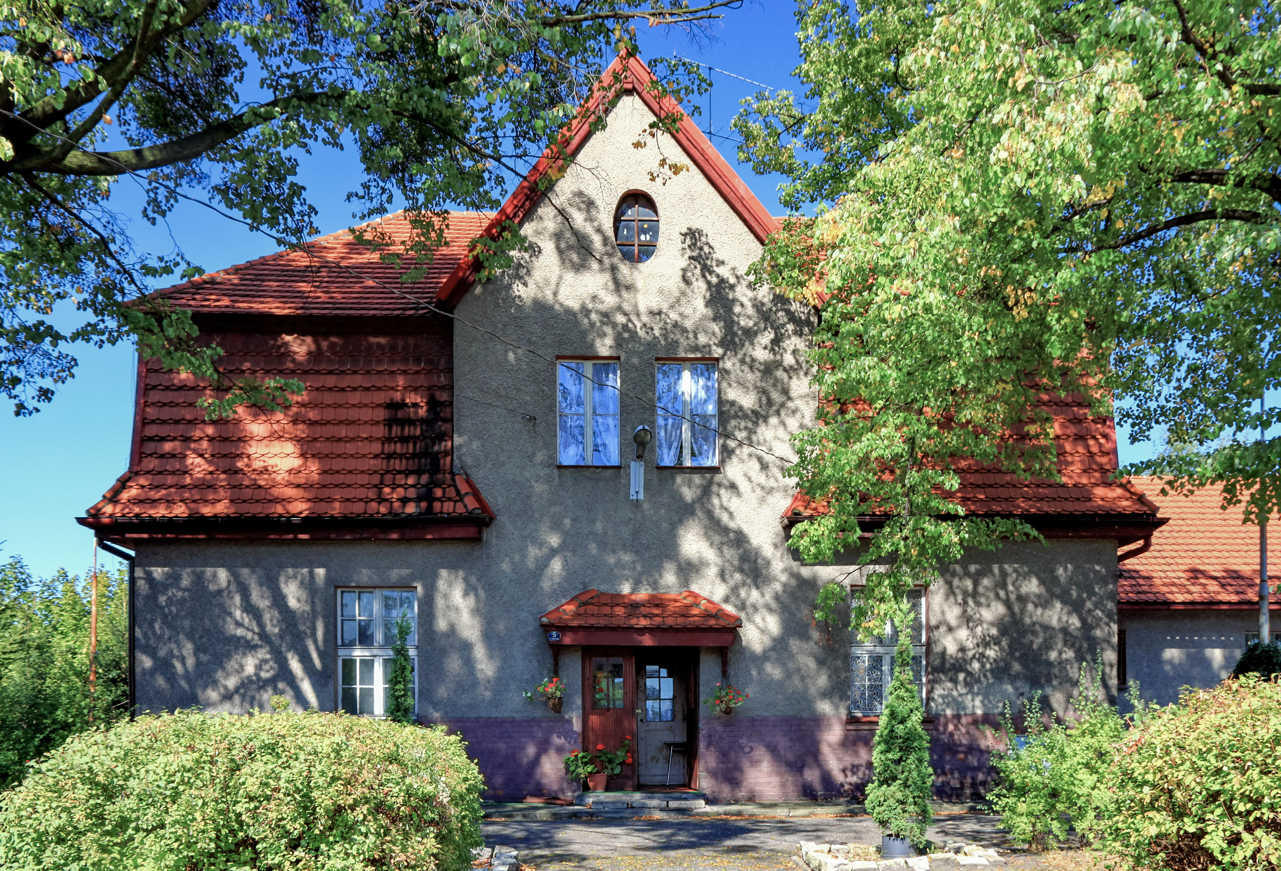 Former train station. Godów, Silesian Voivodeship, Poland.